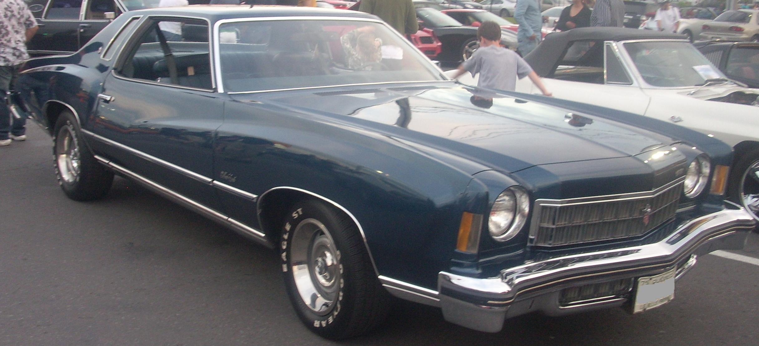 1975 Chevrolet Monte Carlo photographed in Montreal, Quebec, Canada at Gibeau Orange Julep.